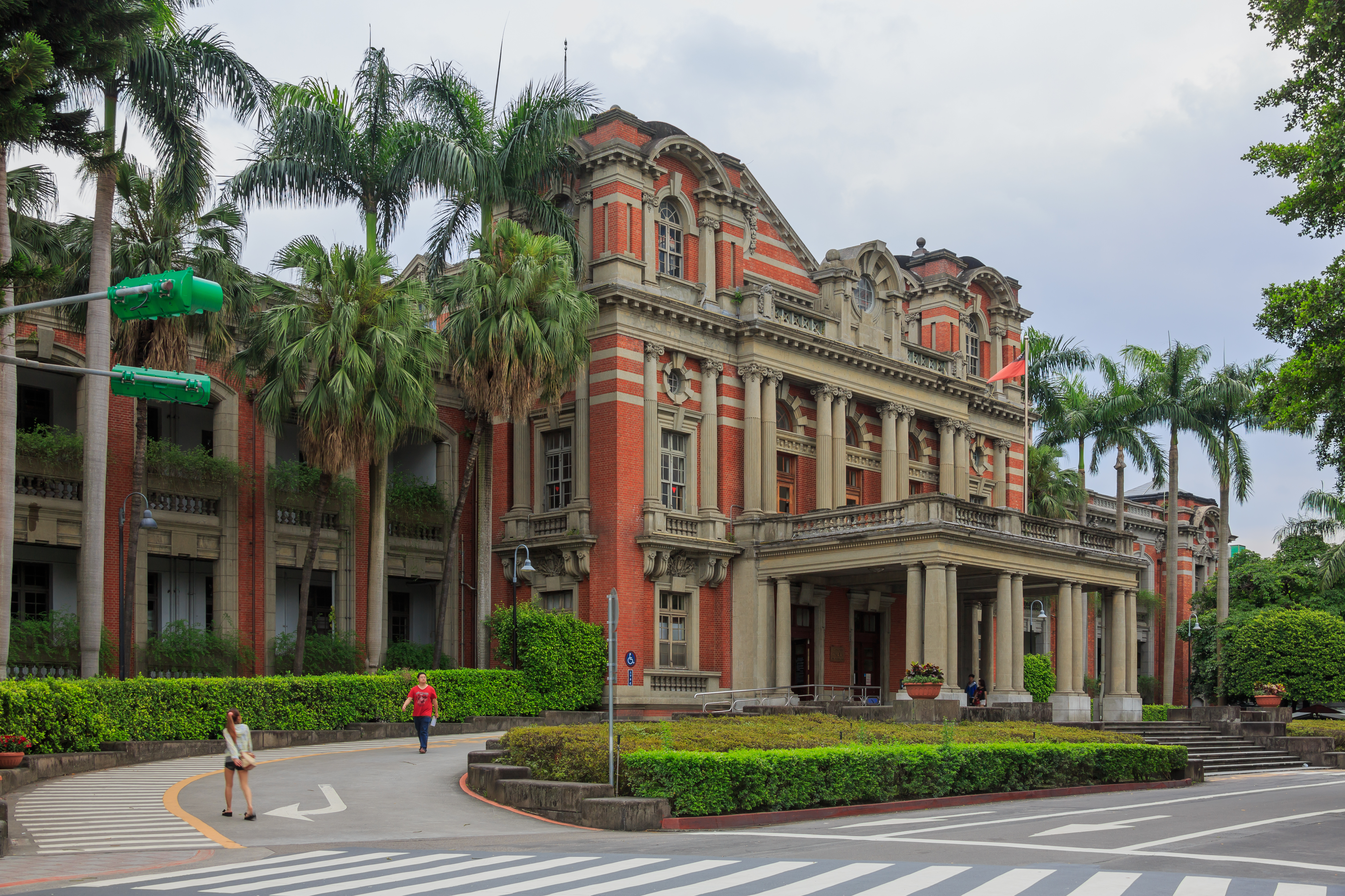 Taipei, Taiwan: National Taiwan University Hospital